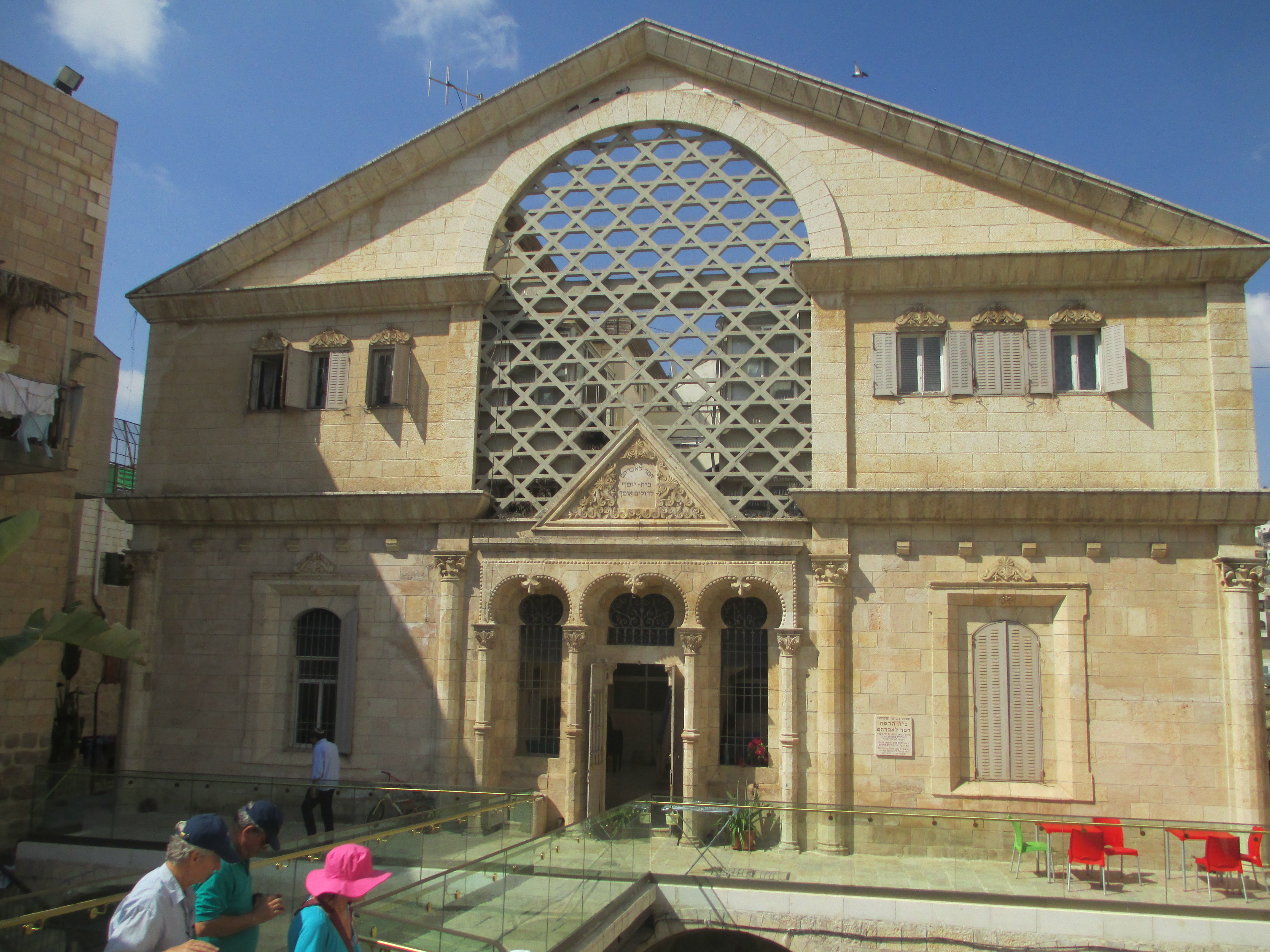 Beit Hadassah in Hebron